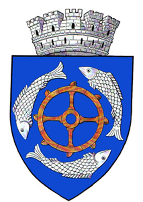 Afbeelding:Coa barlad ro.jpg